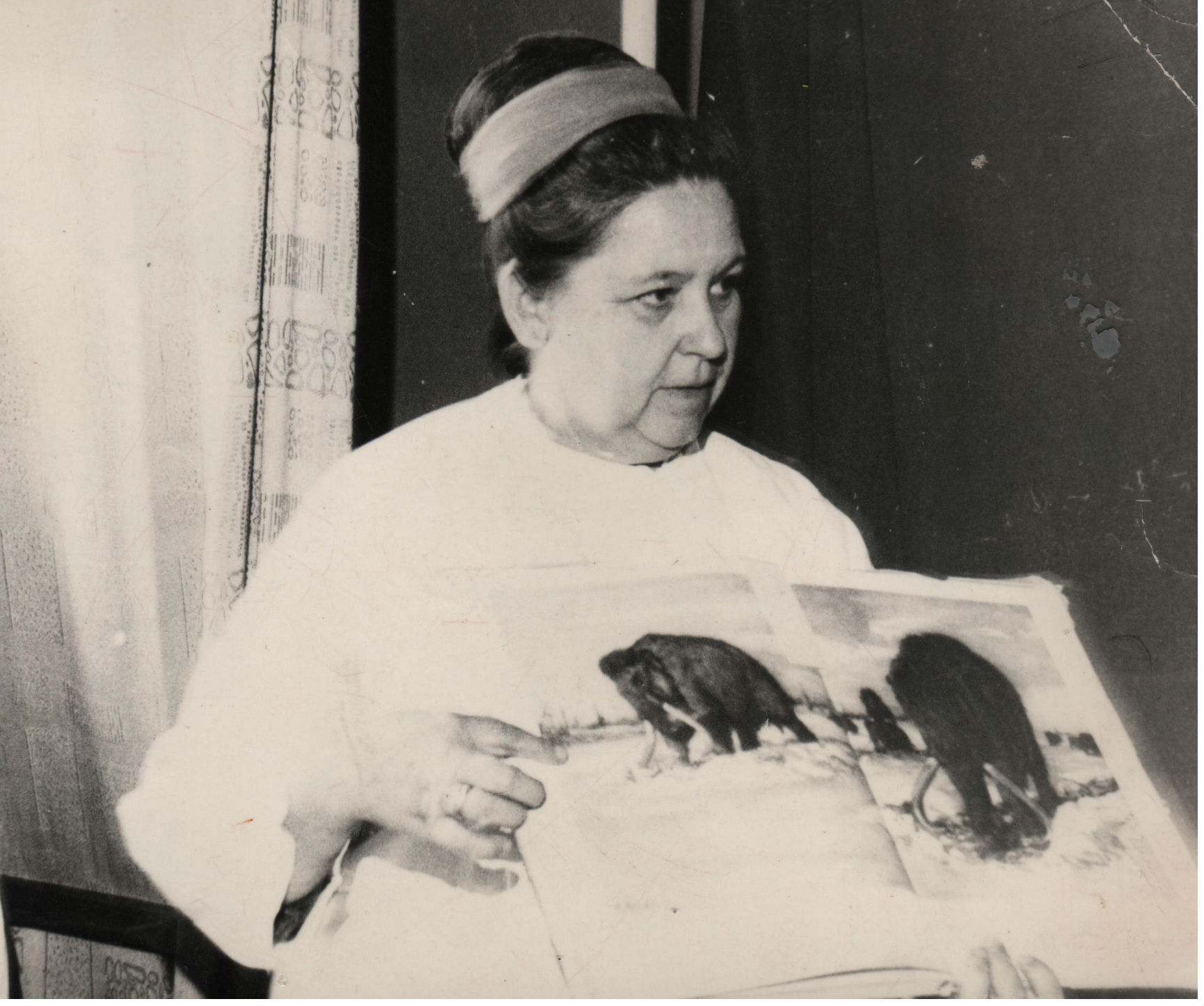 Украинский ученый - археолог